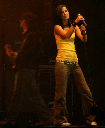 Austrian singer Christina Stürmer, open air in Vienna